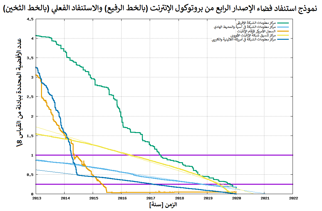 RIR IPv4 exhaution model (thin lines) and real exhastion (bold lines) in 11/1/2020.